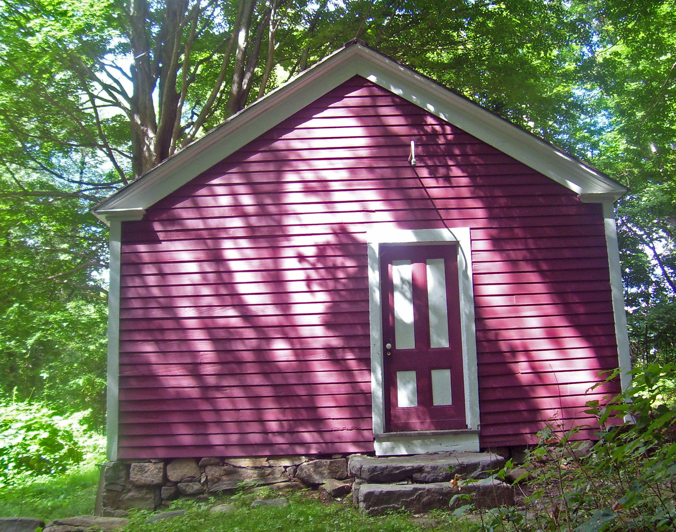 Old schoolhouse near Old Southeast Church, Southeast, NY, USA